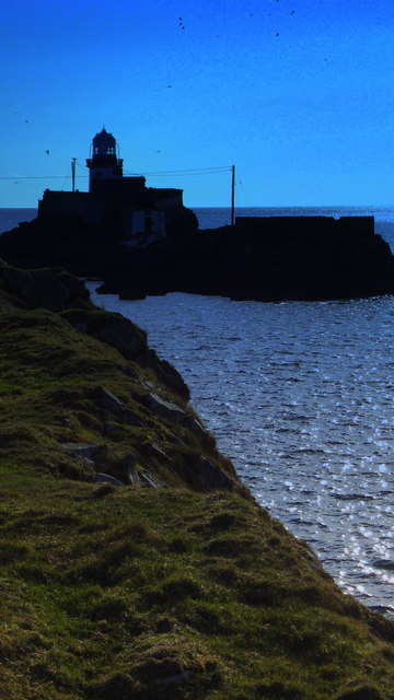 Lighthouse on Rotten Island